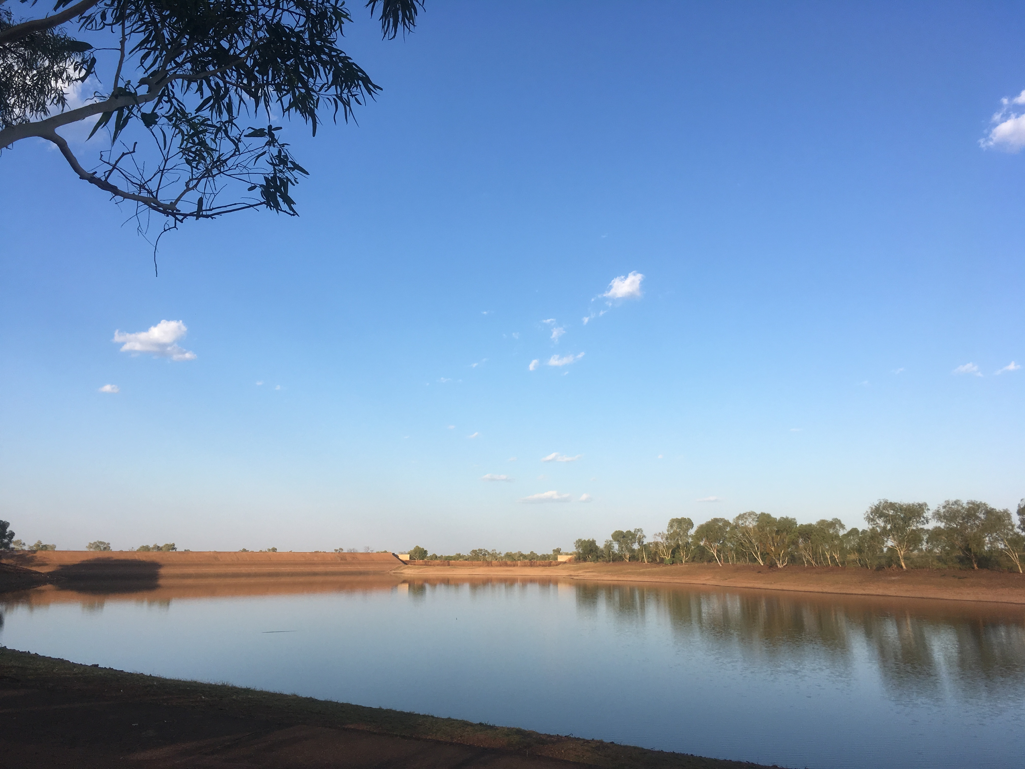 Tingkkarli/Lake Mary Ann north of Tennant Creek in the Northern Territory of Australia